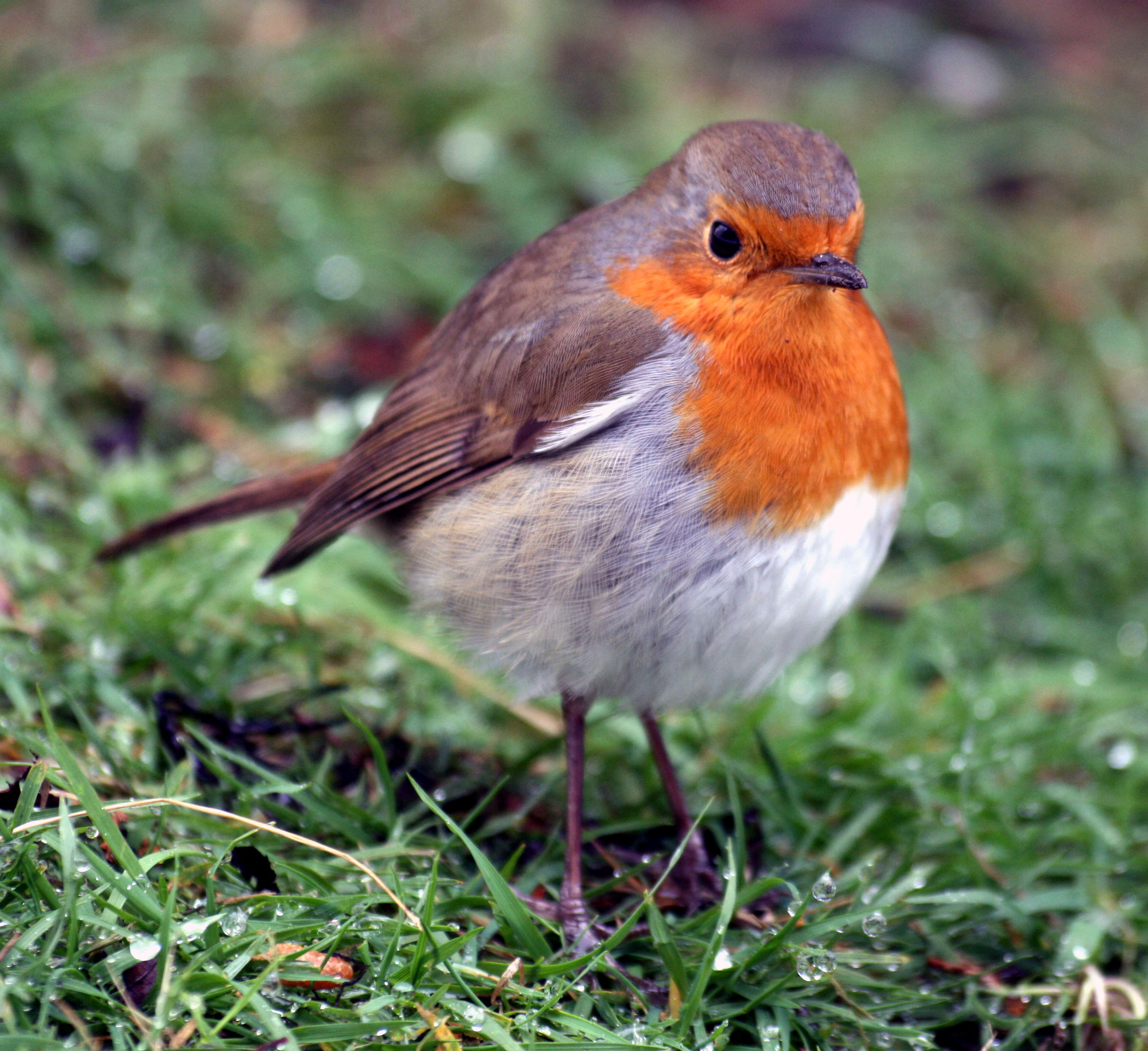 Highest Explore Position #415 ~ On April 11th 2008. Robin Redbreast - Greenwich Park, London, England - Sunday April 6th 2008.